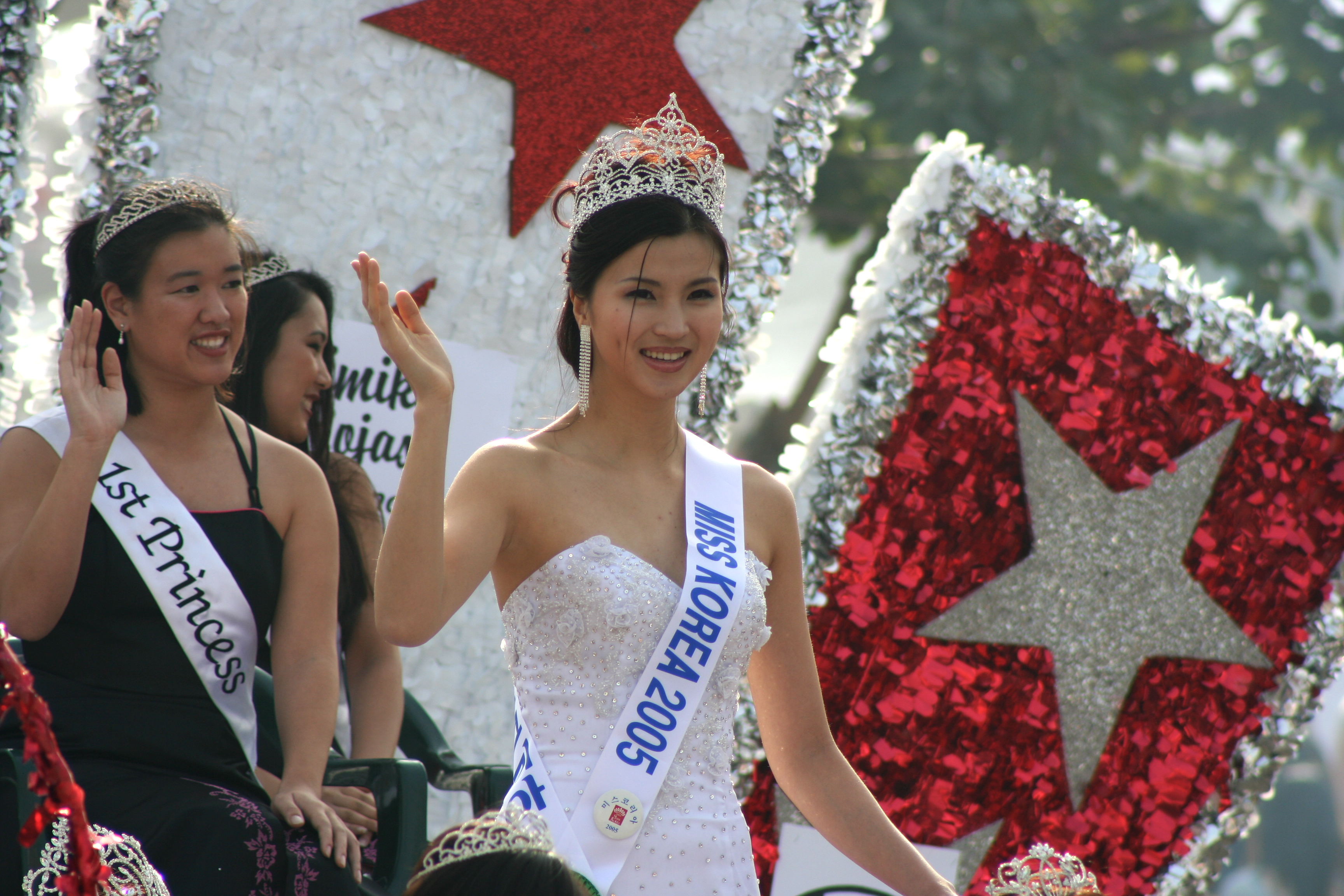 107th Annual golden dragon parade. Miss Korea 2005 Mi Yoo Hye-Mi.